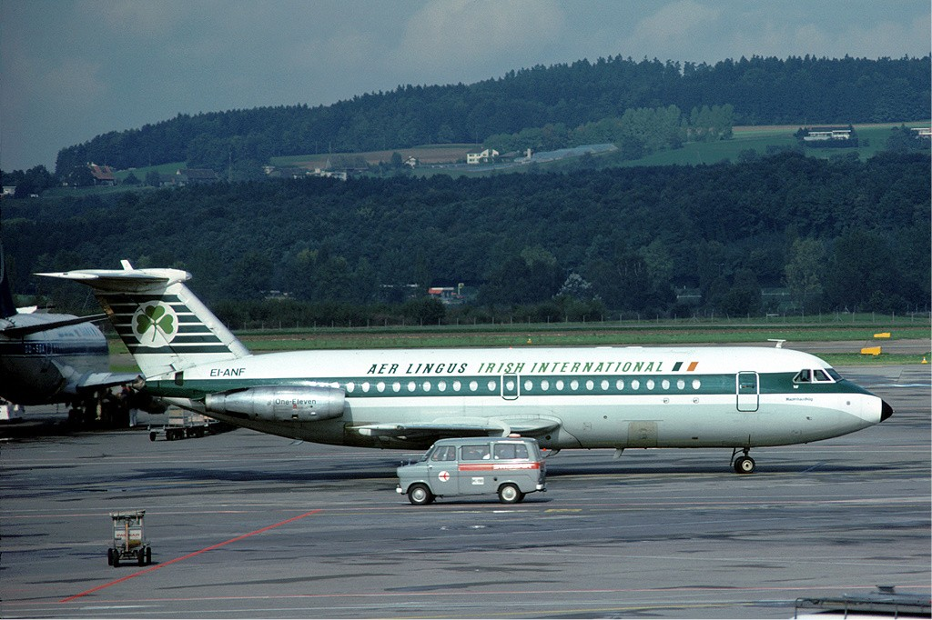 A BAC 1-11 of Aer Lingus at Zurich Airport